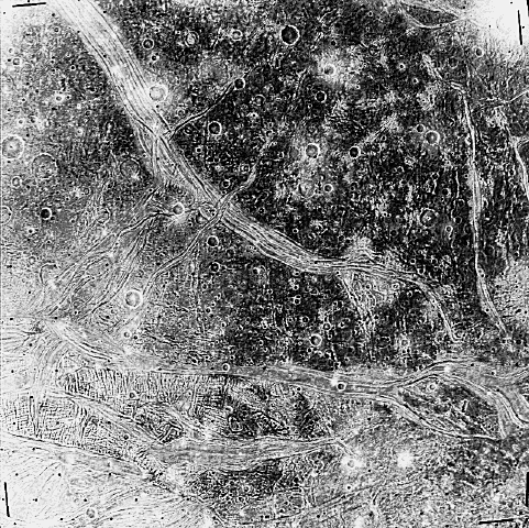 A satellite photo taken by Voyager 2 of an area called "Lagash Sulcus" on Ganymede.